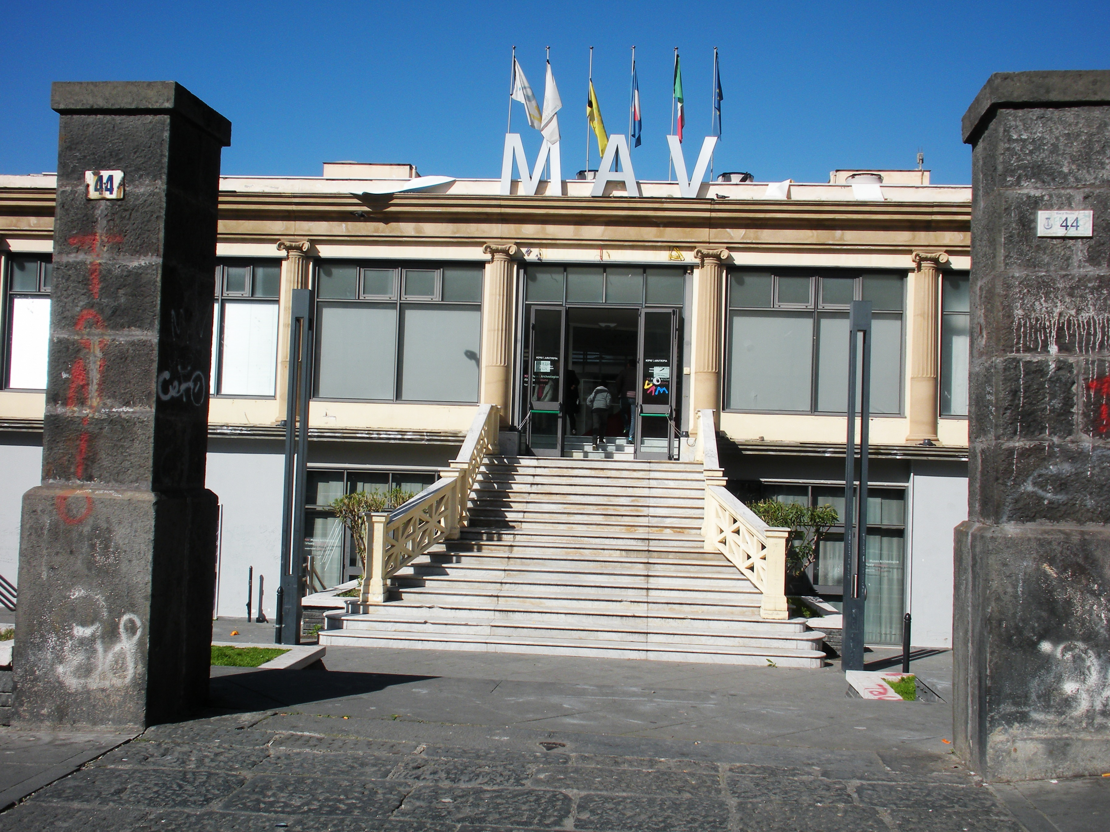 The MAV, Virtual Archeologic Museum in Ercolano